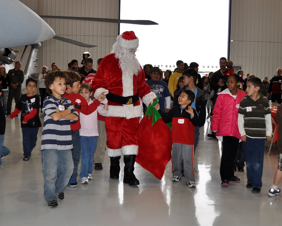 CORONADO, Calif. (Dec. 12, 2009) Children from the Make-A-Wish Foundation escort Santa to his chair during their visit to Navy Air Squadron VR-57 at Naval Air Station North Island. (U.S. Navy photo by Mass Communication Specialist 1st Class Shawn D. Torgerson/Released)